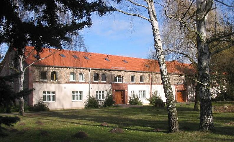 Guesthouse in the Kloster Alexanderdorf – Benediktinerinnenabtei St. Gertrud, a monastery for women in Kummersdorf-Alexanderdorf, part of the municipality Am Mellensee in the Teltow-Fläming district of Brandenburg, Germany. The Benedictine nunnery was founded in 1934 and was elevated in 1984 to an abbey.